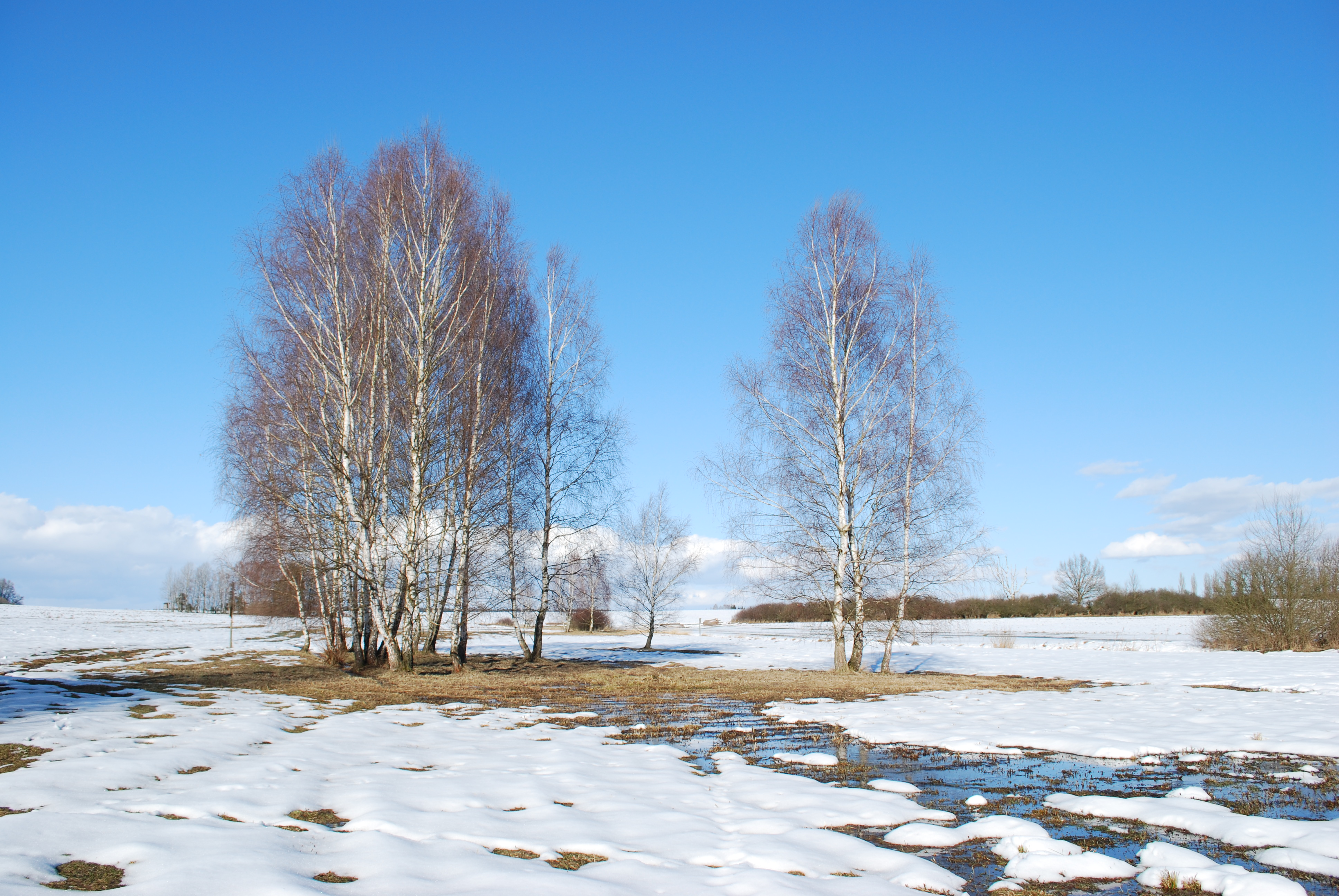 Natural monument Kutiny in Tábor District, Czech Republic This photograph was taken within the scope of the 'Czech Municipalities Photographs' grant.